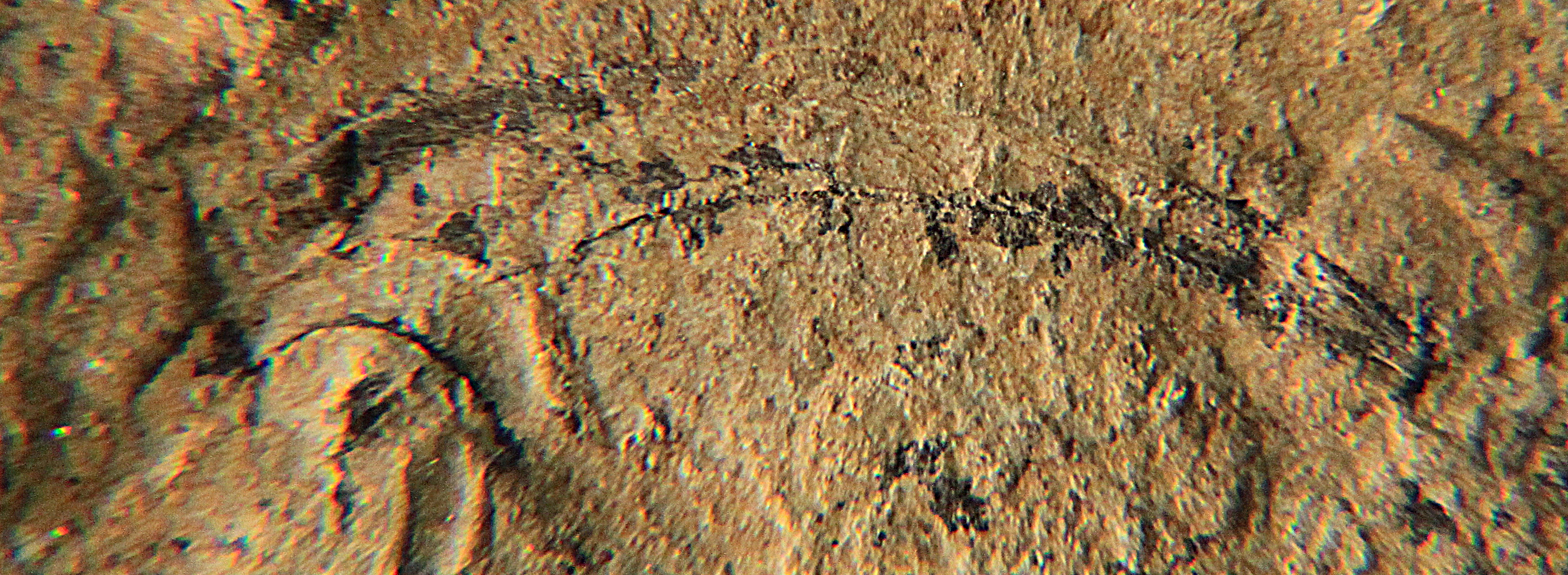 A Richterops falloti trilobite, Order Redlichiida, Family Saukiandidae, librigena, 19mm along the spine, collected near Tazemmourte, Morocco, Lower Cambrian (Middle Atdabanian to Lower Botomian)